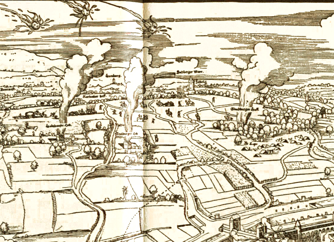 Detail between Bornheim and the castellated courtyard Holzhaussen. From: Siege Plan of the City of Frankfurt, after Conrad Faber von Creuznach (1552)